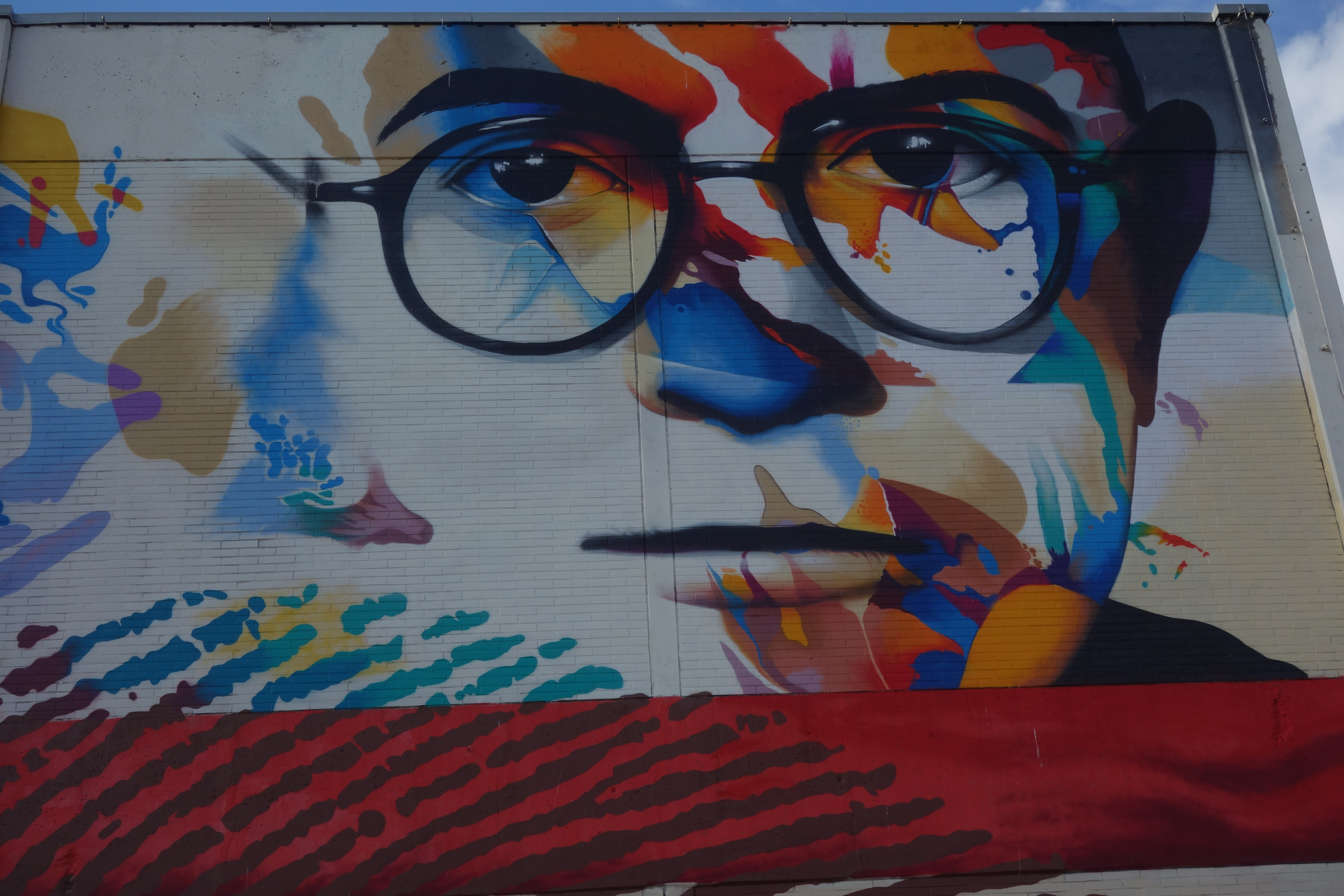 Mural of Theodor Adorno by Justus Becker and Oğuz Şen. Senckenberganlage, Frankfurt